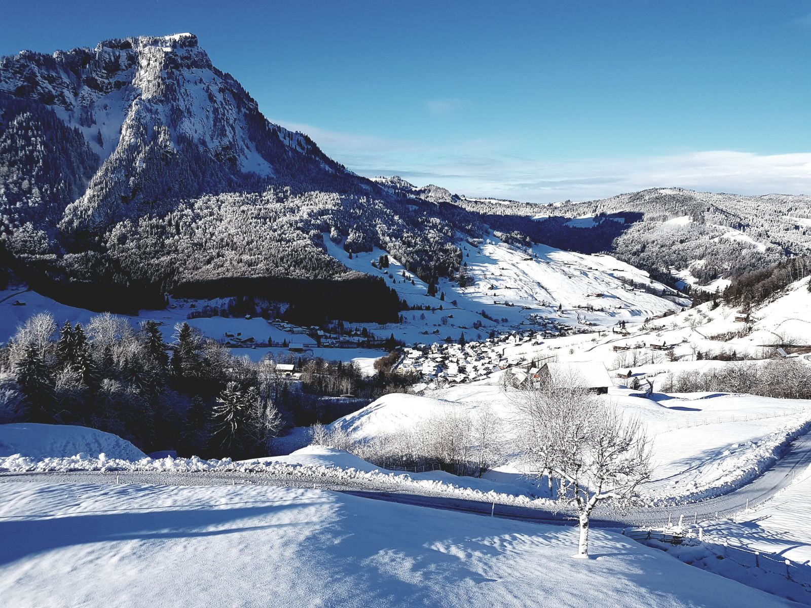 Village of Vorderthal, seen from Bächweid towards the big Aubrig